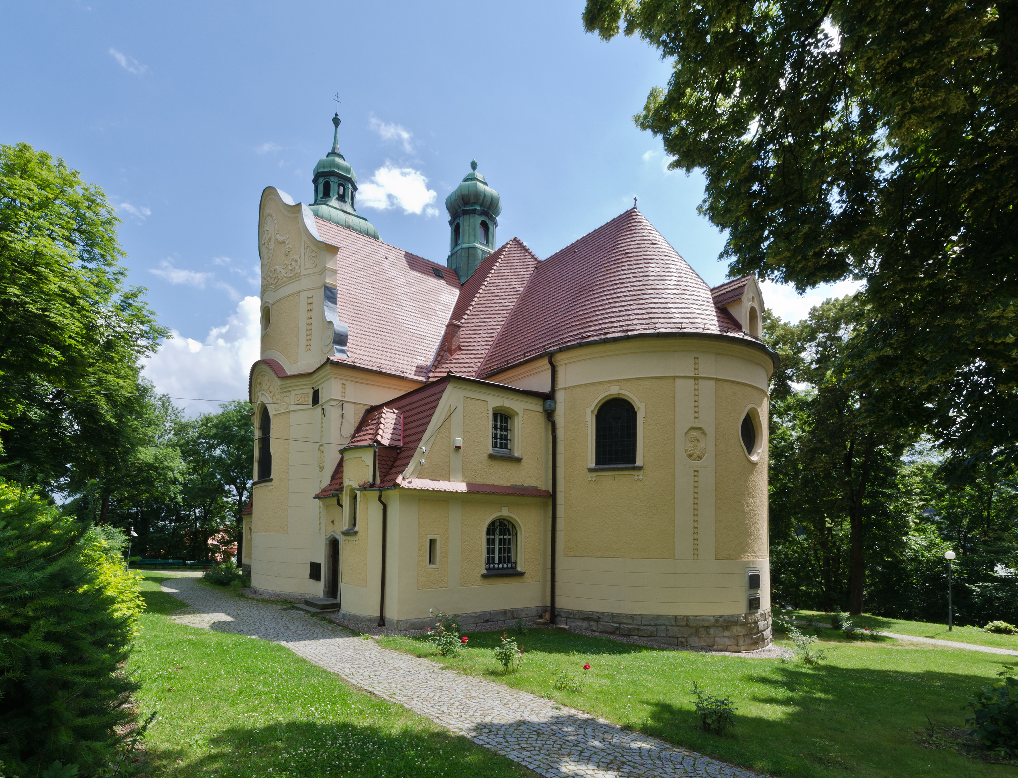 Church of the Assumption in Polanica-Zdrój